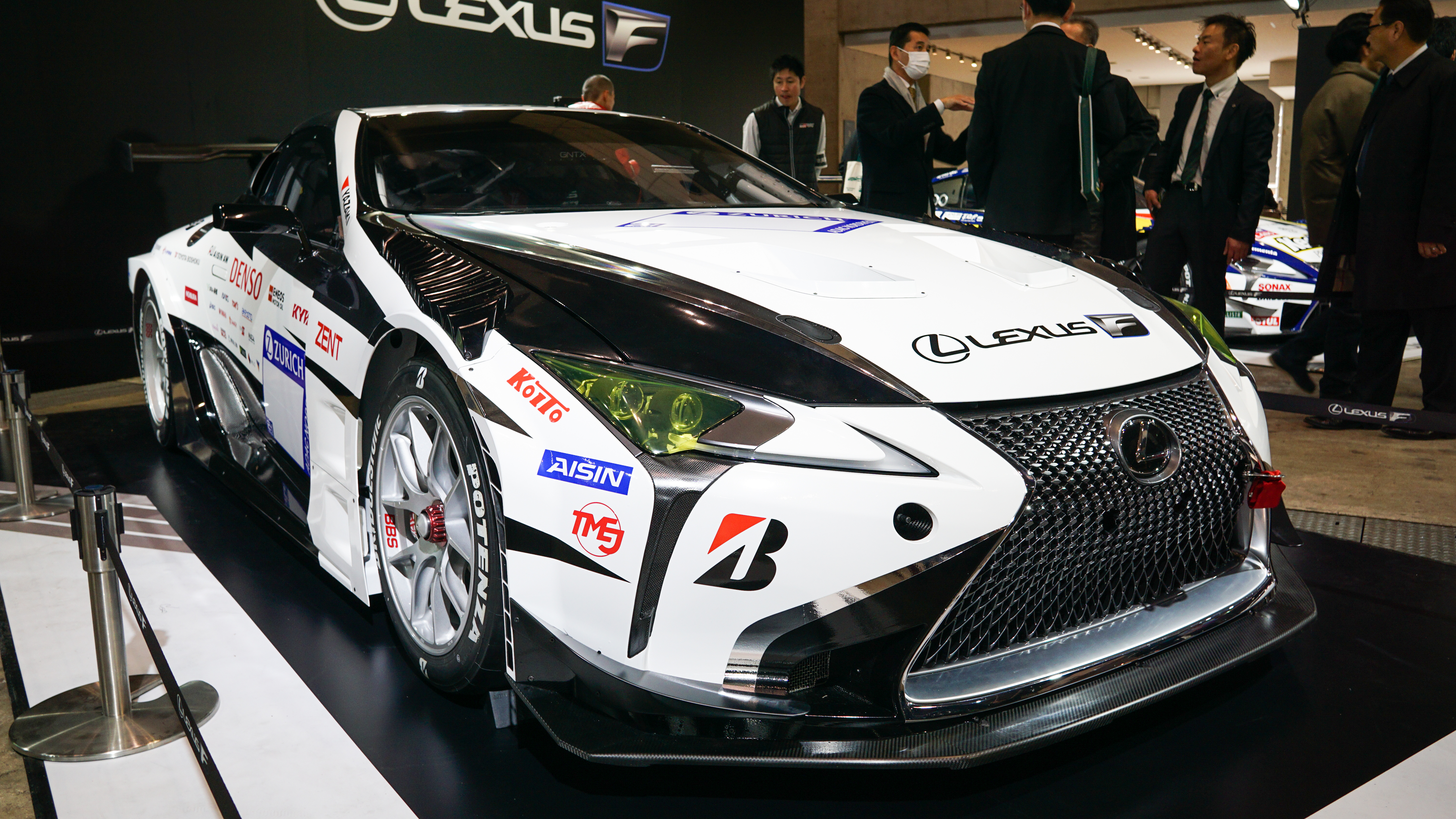 Front view of the Lexus LC SP-PRO competing at the 2018 24 Hours of Nürburgring, at the Tokyo Auto Salon 2018 Toyota booth.